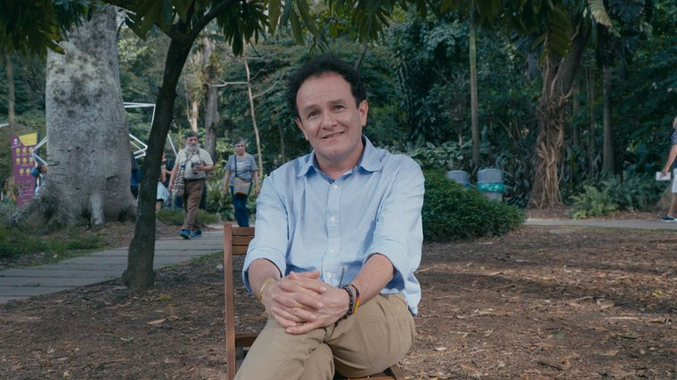 This image is of photojournalist Jesús Abad Colorado